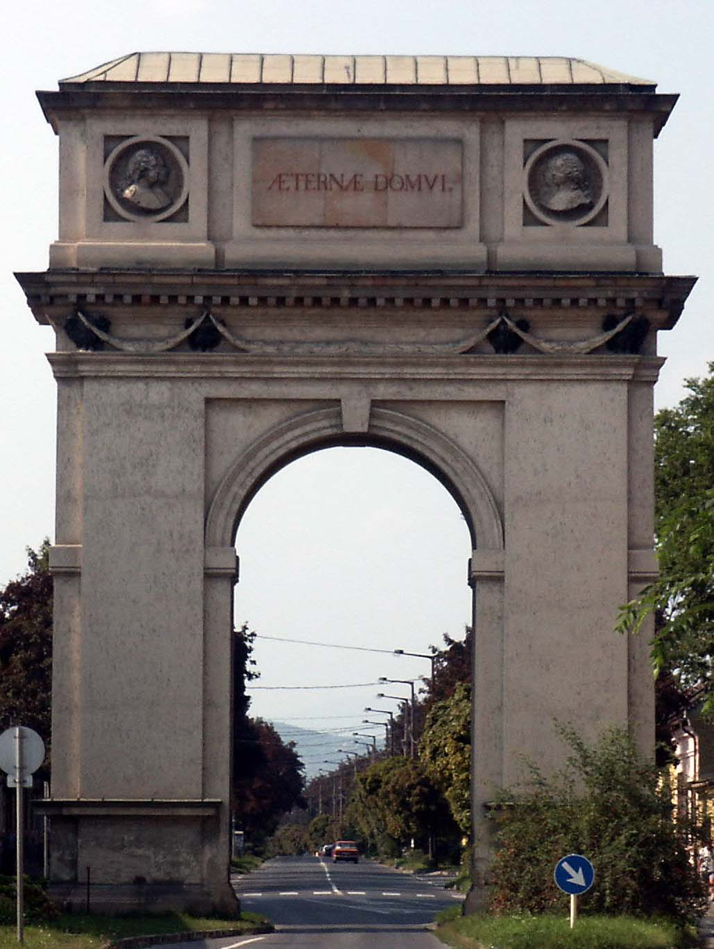 Arco di trionfo di Vác This is a photo of a monument in Hungary, Identifier: 7526